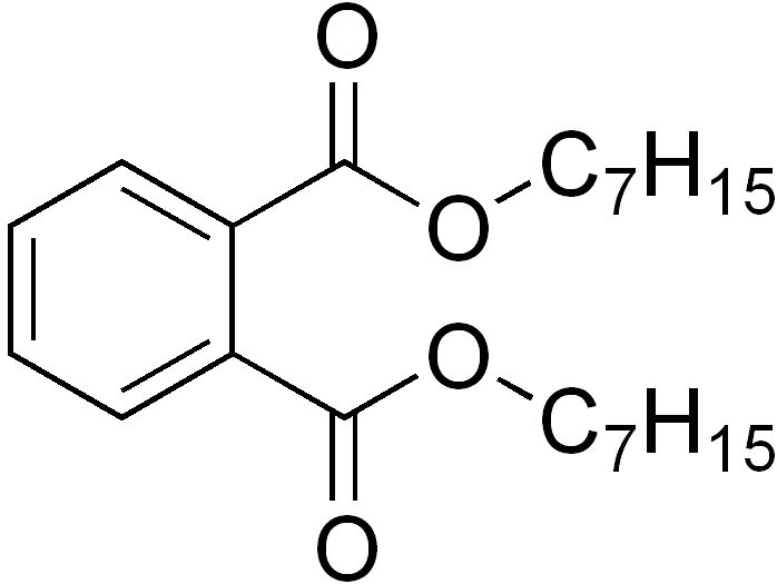 chemical structure of diisoheptyl phthalate